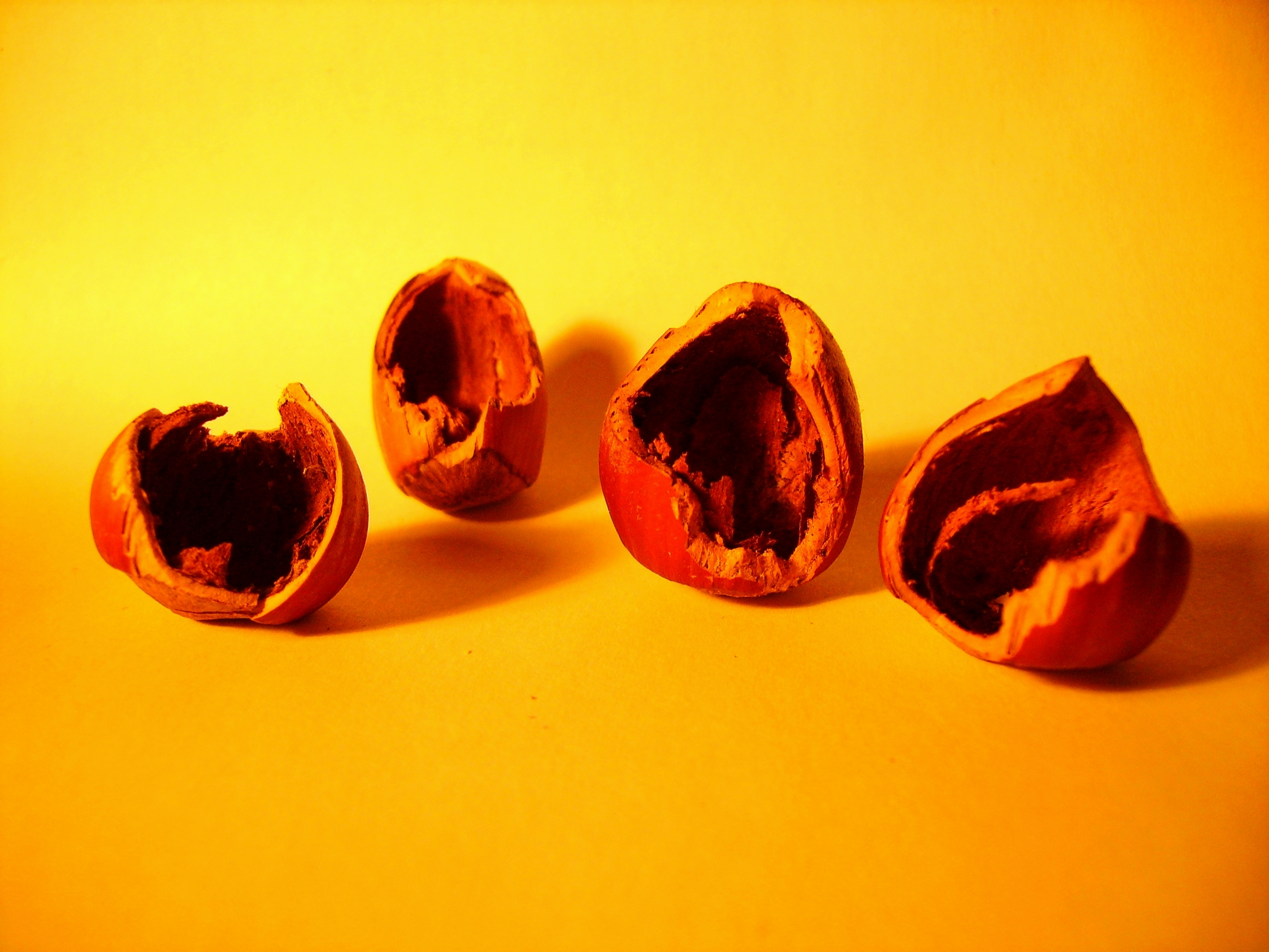 Nuts gnawed by squirrels Sciurius Vulgaris in Lazienki Park in Warsaw